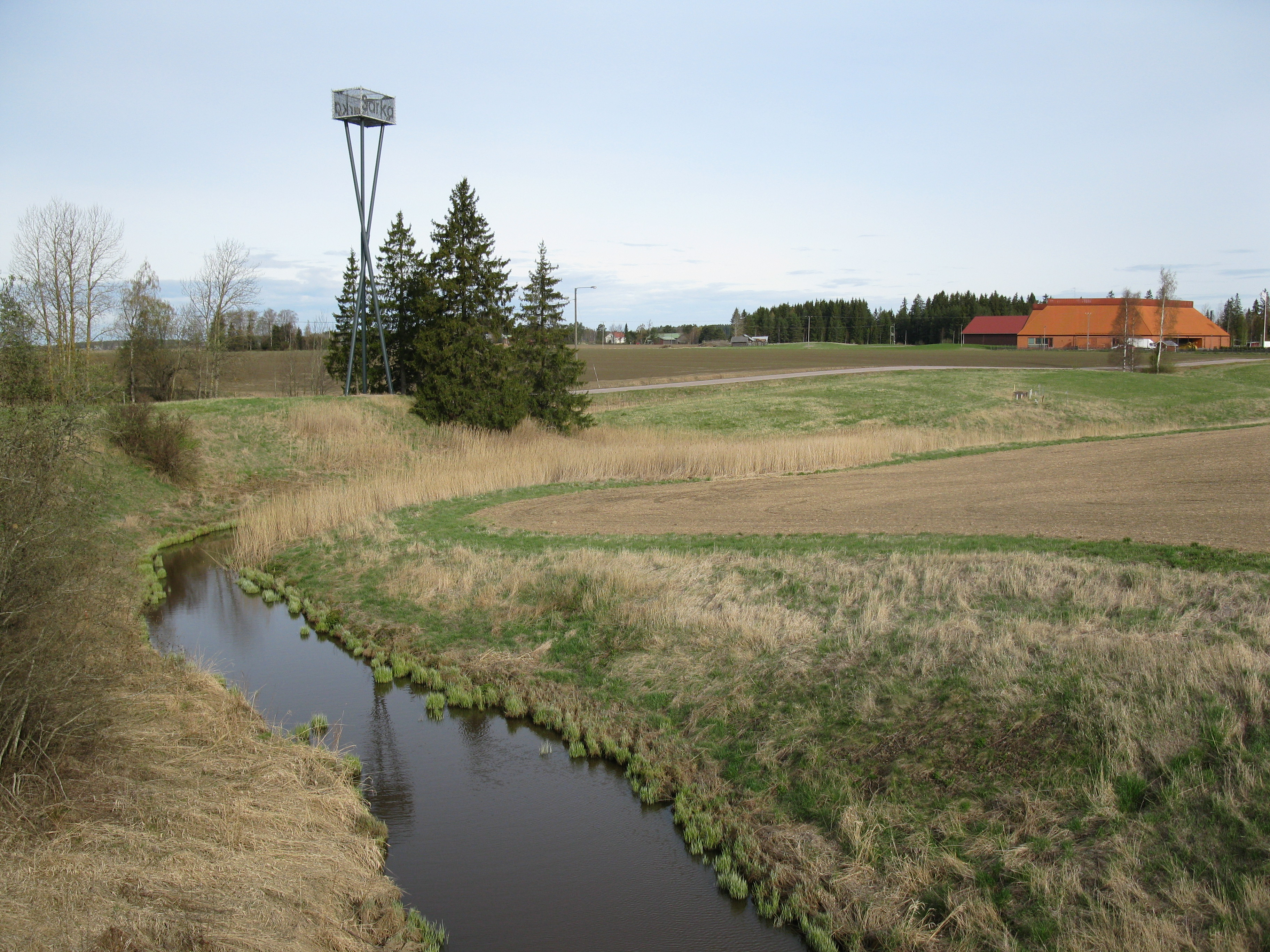 Finnish agriculture museum Sarka and its landmark seen from Finnish national road 9. In the front River Petäjoki.